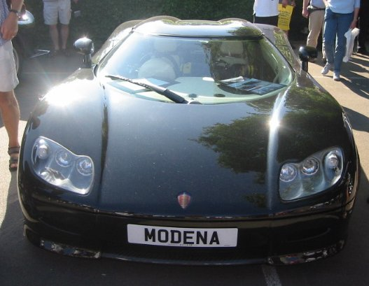 Photograph of the front of a Koenigsegg CC8S at the 2003 Goodwood Festival of Speed.